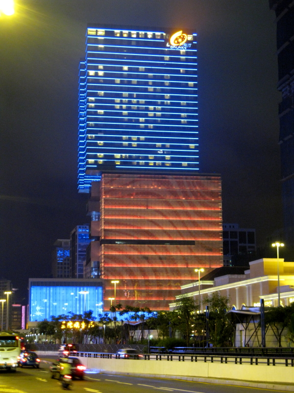 Macau StarWorld Hotel at night